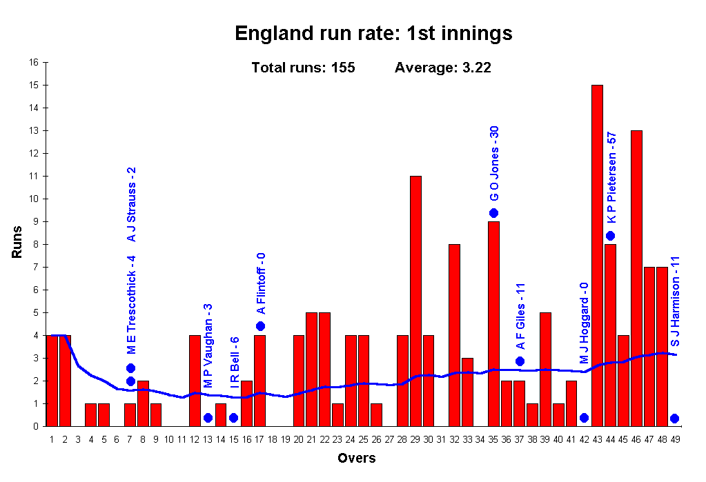 Graph shows the run rate for England's first innings in the first Test in the 2005 Ashes played at Lord's. Blue dots signify the loss of a wicket with the batsmen out and their runs scored being shown above the dot. Graph made by User:Suicidalhamster using data from this source (Cricinfo)